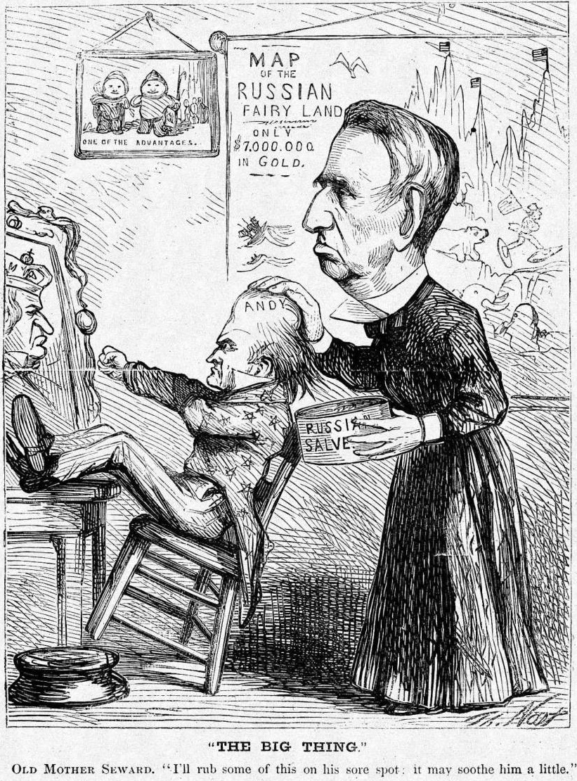 Cartoon satirizing the Alaska purchase of 1867. Secretary of State William Seward rubs cooling salve (Alaska) on the feverish (and embattled) president, Andrew Johnson. In the background, "the advantages" are dominion over the Eskimos, and in the poster, Uncle Sam is chased by polar bears.